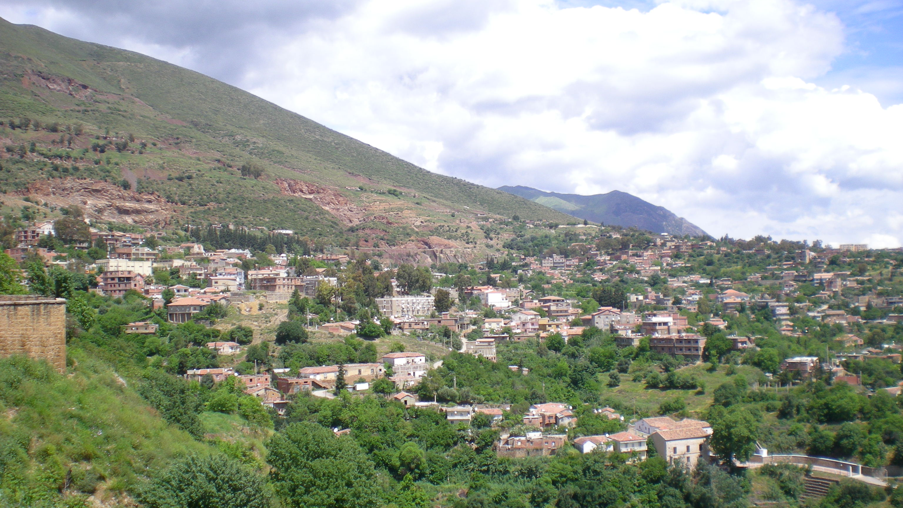 Miliana - Algeria